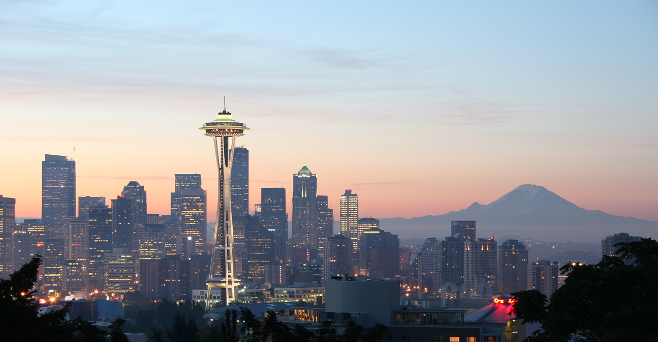 Picture taken by myself.